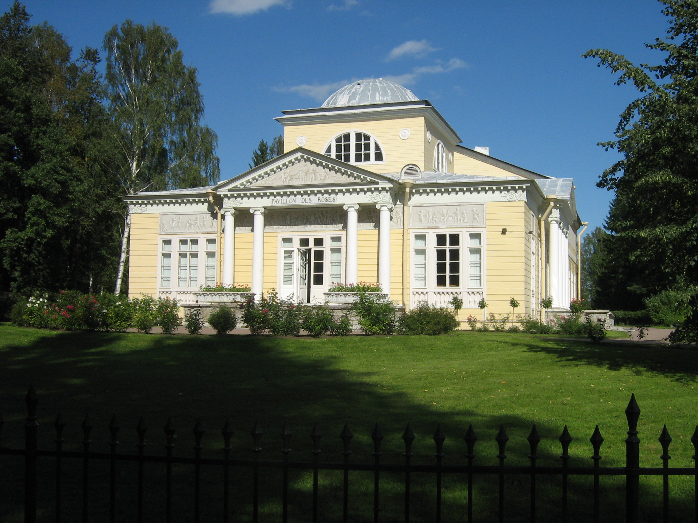 Rose Pavilion in Pavlovsk Park in Pavlovsk, Saint Petersburg (Russia)